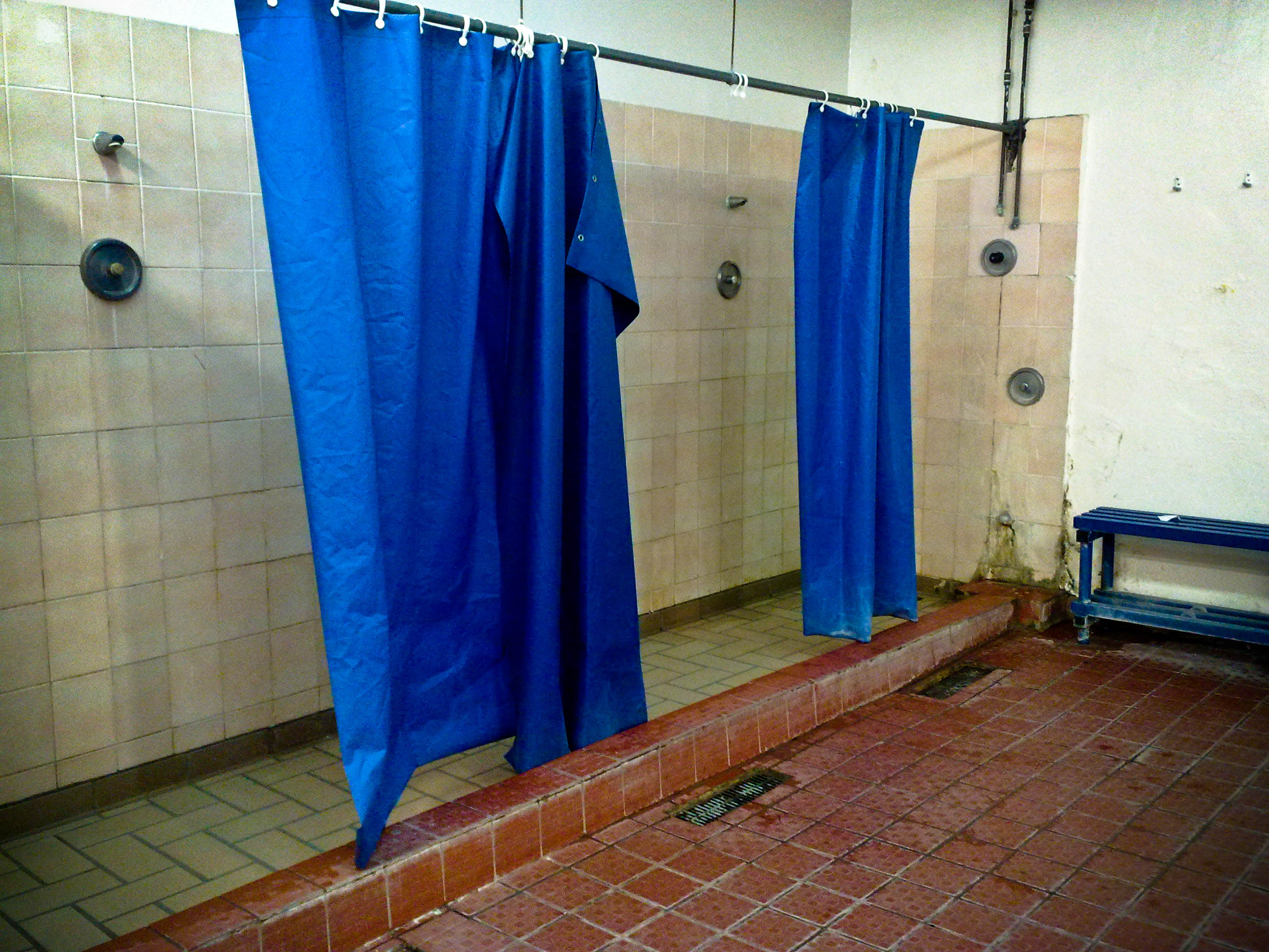 Camberwell Leisure Centre showers before restoration work in 2010.